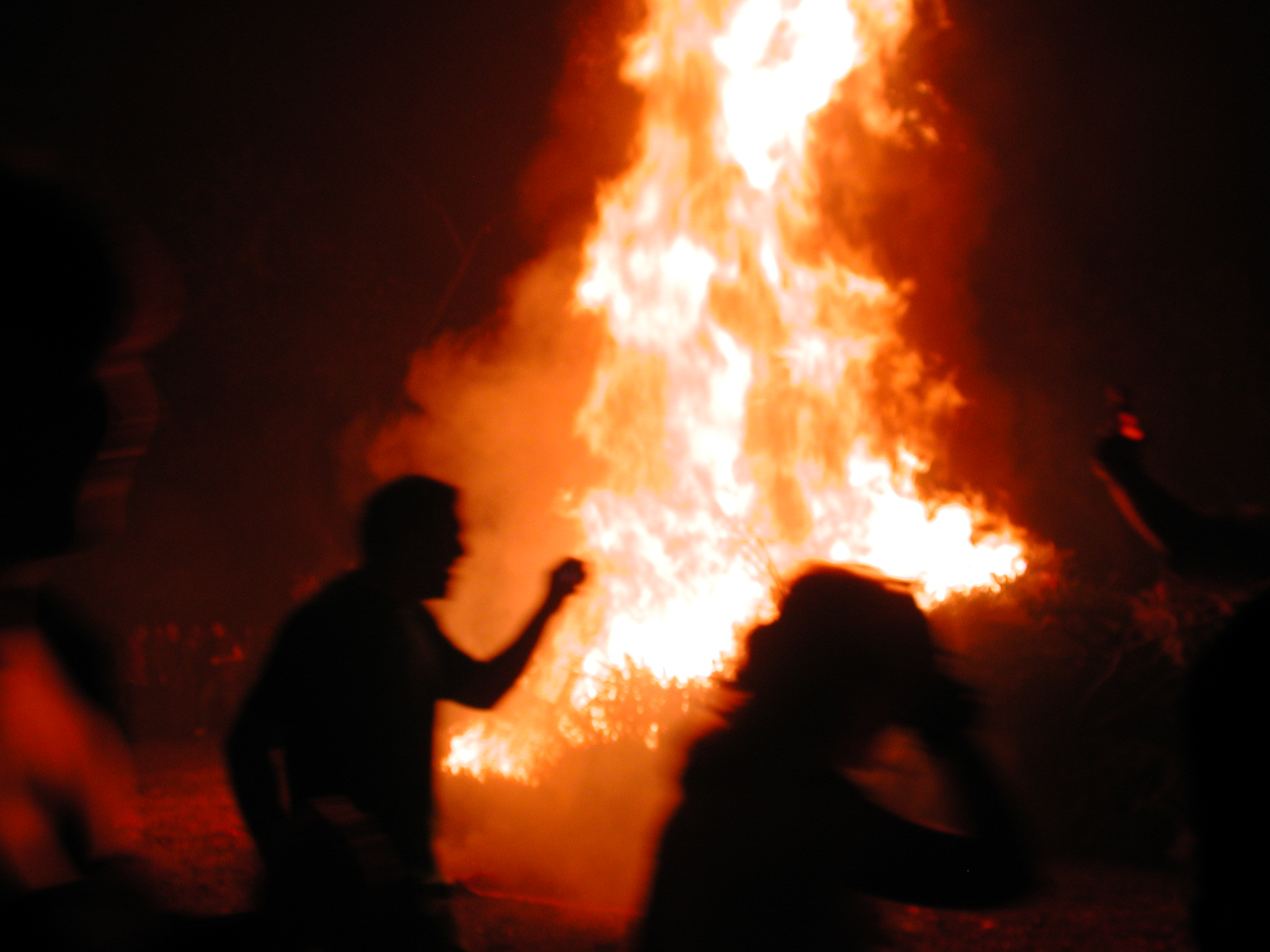 Traditional New Year bonfire, Orleans Avenue, Mid-City New Orleans. You gotta run around the bonfire for good luck in the New Year.